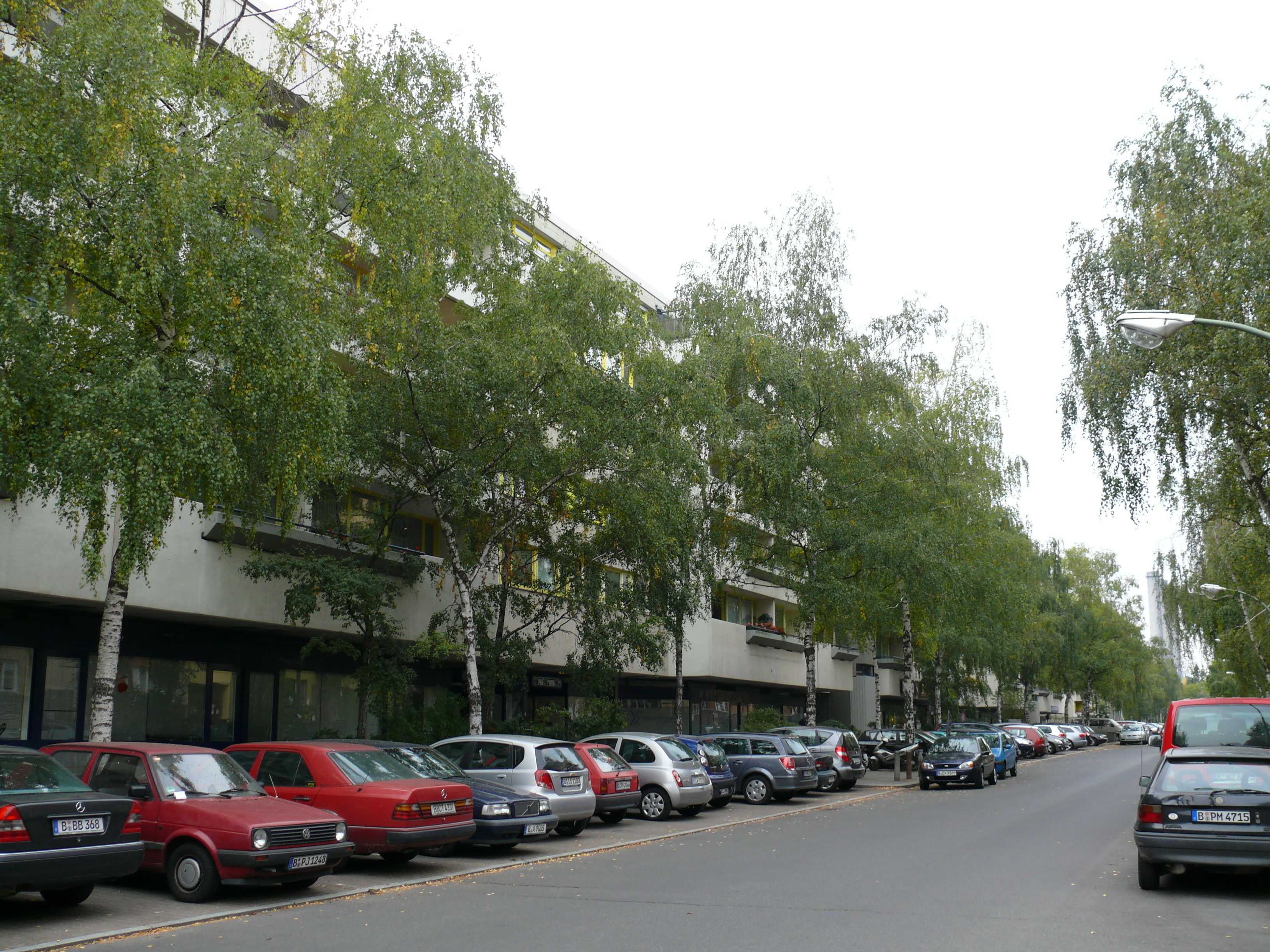 Berlin-Wilmersdorf Schlangenbader Straße Rheingauviertel